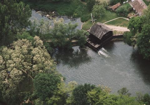 Túristvándi, Hungary, aerialphotography